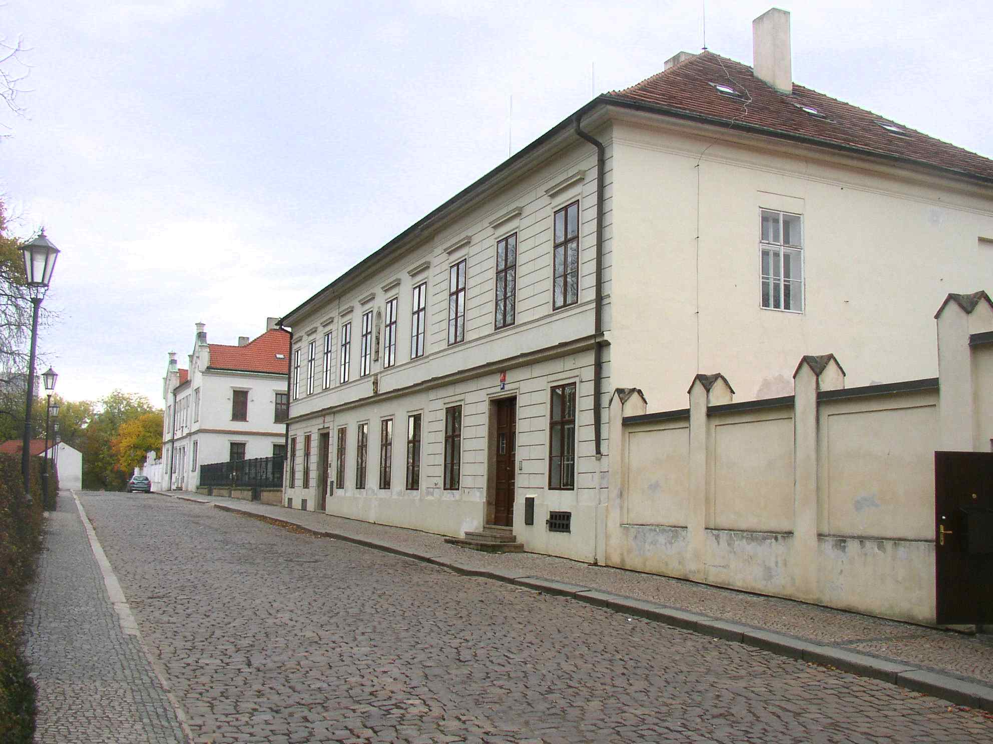 Canon residences, Vyšehrad, Prague, Czech Republic. The house in the foreground was designed by Jan Ripota in 1846 and built for canons of Vyšehrad Chapter in 1848-1849, the house in the background was designed by Josef Niklas in 1874 and built in 1875. Kanovnické domy v ulici K rotundě 6-8 a 12-14 na pražském Vyšehradě. Dvojdům v popředí byl navržen pro kanovníky vyšehradské kapituly Janem Ripotou v roce 1846 a postaven v letech 1848-1849, dvojdům v pozadí pak podle plánu Josefa Niklase z roku 1874 postaven roku 1875. Photo taken by Miaow Miaow in October 2005, PD-self